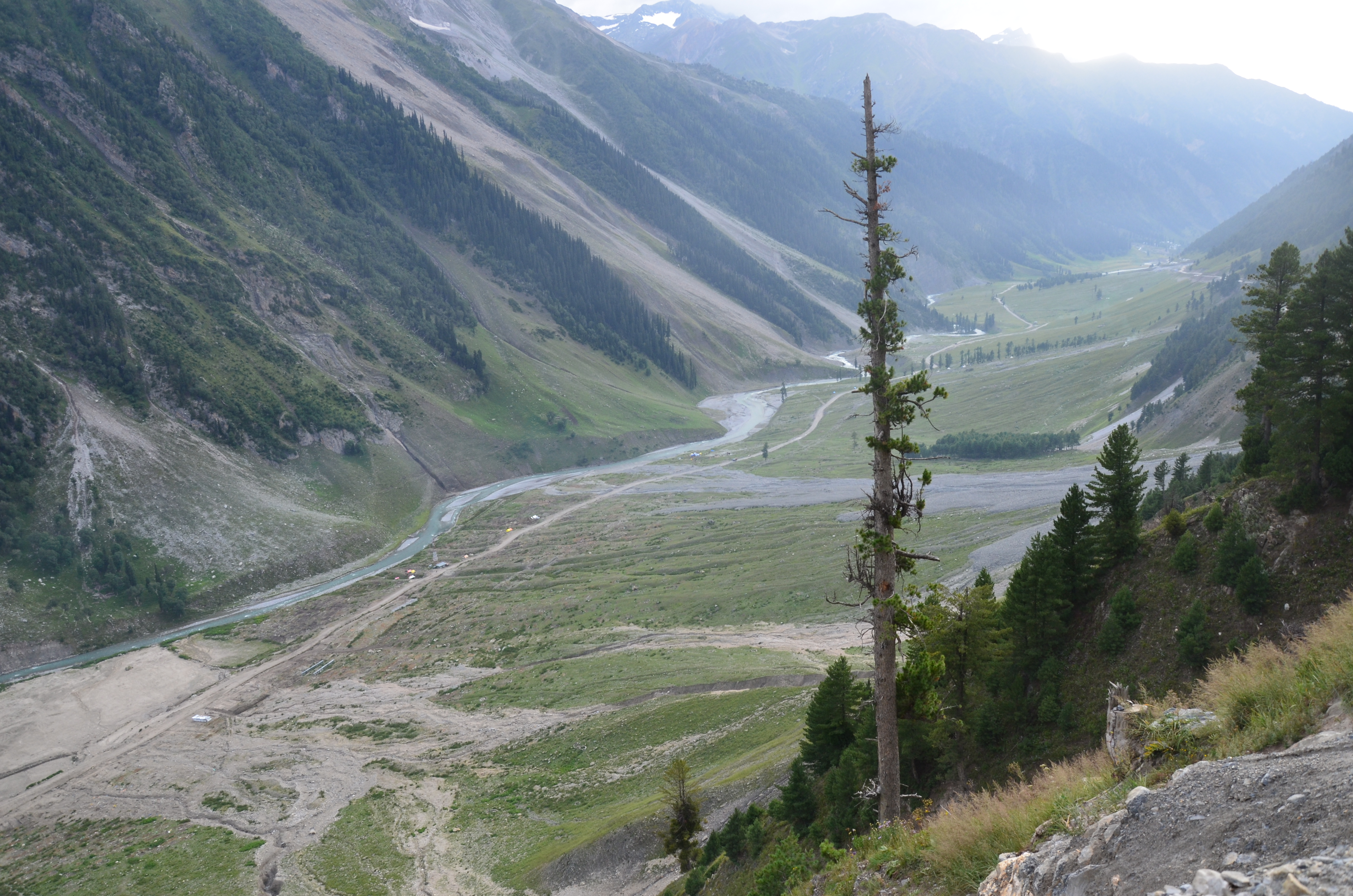 The view of Sonmarg valley also known as the meadow of Gold